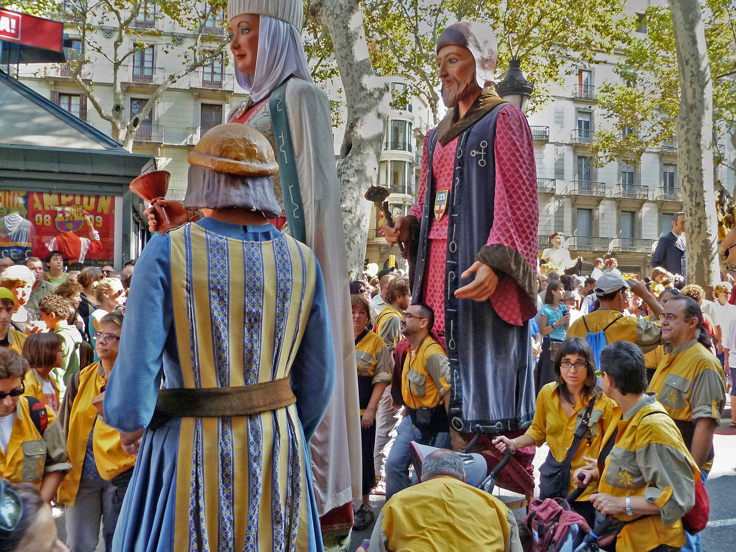 Procession of the giants during the festes de la Mercè; Barcelona, Catalonia, Spain